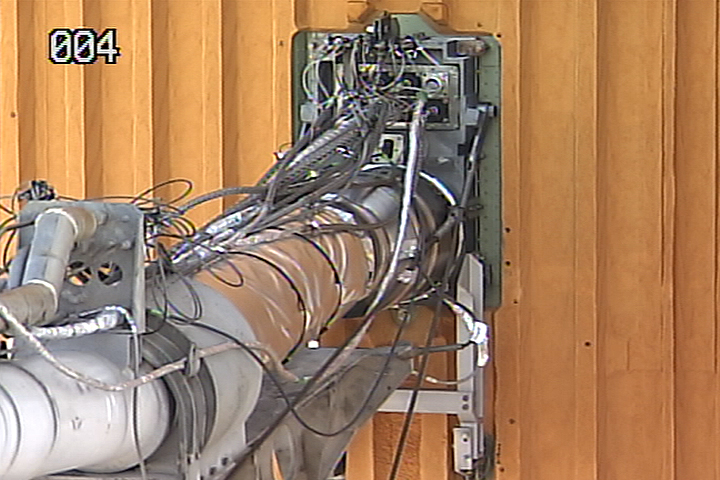 The hydrogen vent line connects to the external tank for space shuttle Discovery